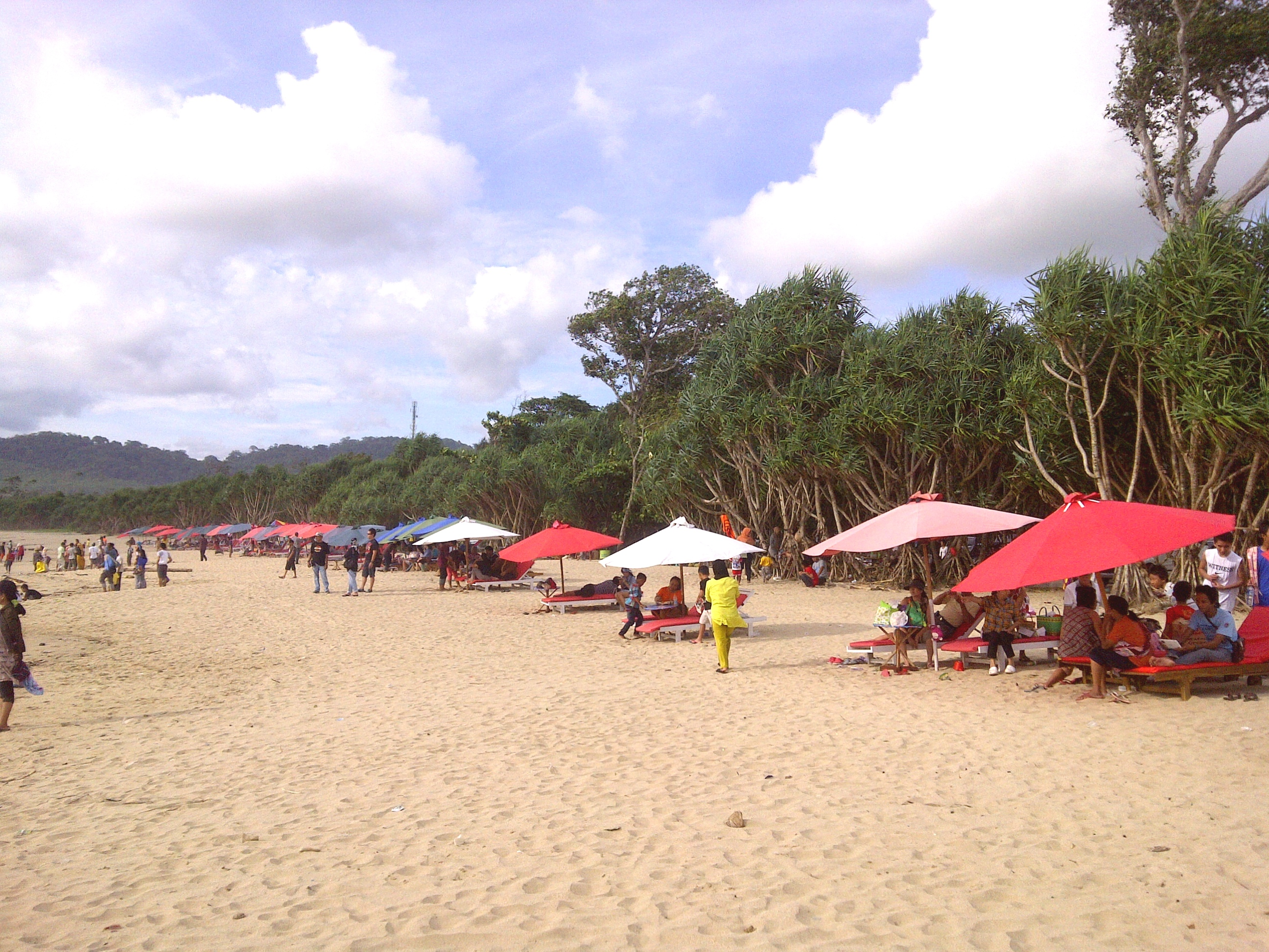 the tourists enjoyed the view of Pulo Merah under parasols